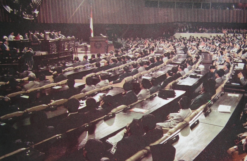 Special Session of the People's Consultative Assembly